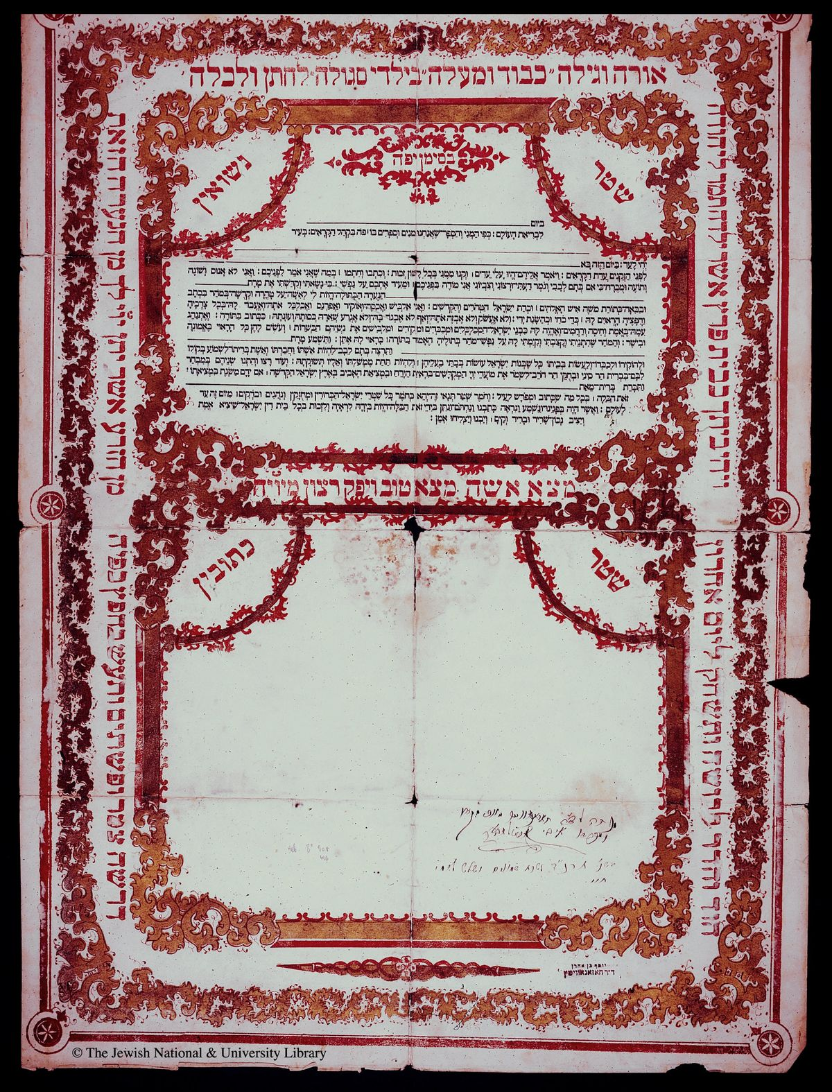 Ketubah from The Ketubot Collection of the National Library of Israel